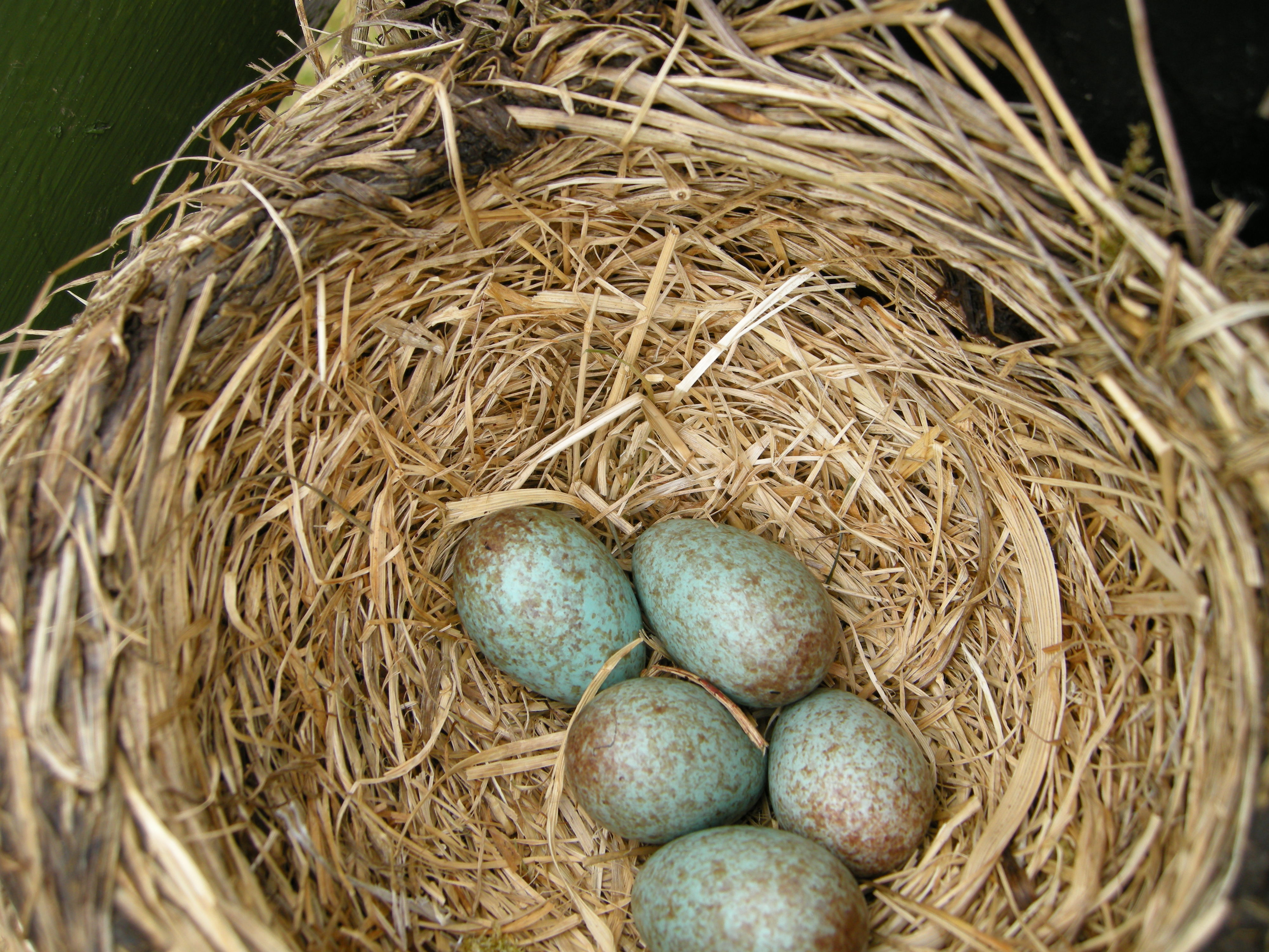 Fieldfare's nest found in Tufjord, 1,5 km from North Cape., РАБІ́ННІК, дрозд-рабіннік, Рабіньнік, Хвойнов дрозд, Griva cerdana, Drozd kvíčala, Socan Eira, Sjagger, Wacholderdrossel, Hallrästas, Fieldfare, Zorzal real, Grive litorne, Fjildlyster, cesena, ბოლოშავა, Smilginis strazdas, Fenyőrigó, Kramsvogel, Schatliester, ノハラツグミ, Kwiczoł[edytuj], Sturz, Рябинник, Drozd čvíkotavý, Räkättirastas, Björktrast, Tarla ardıç kuşu, 田鸫